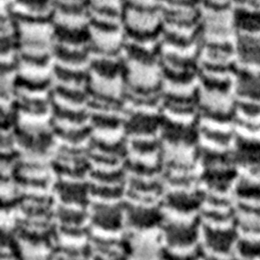 A high resolution magnetic force microscopy image of a late generation hard disc (WD3200BEVT). The image is 1 micron square.